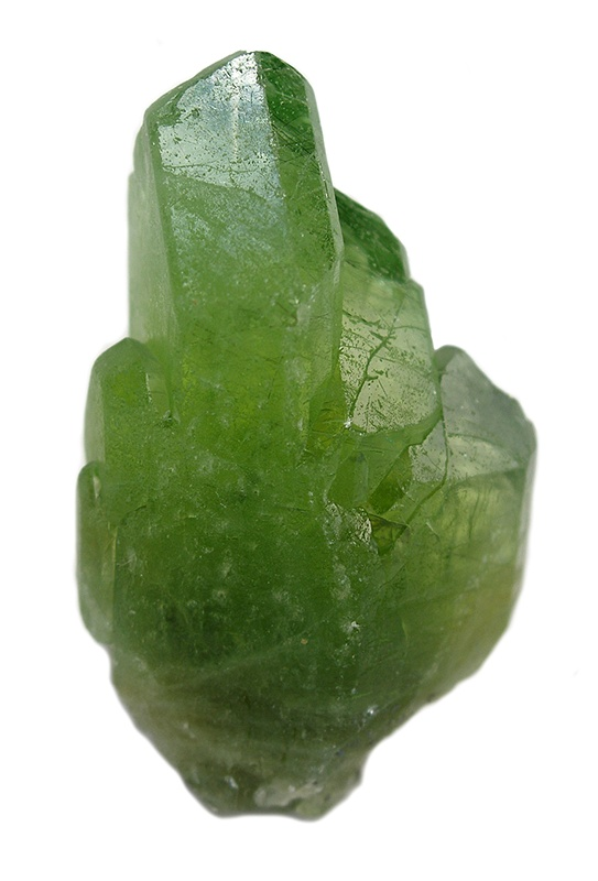 Olivine Locality: Sapat Gali (Soppat; Suppat; Sumpat), Manshera, Naran-Kagan Valley, Kohistan District, North-West Frontier Province, Pakistan (Locality at ) Size: miniature, 3.5 x 2.2 x 1.2 cm Peridot This is one of the more beautiful miniatures I have seen, as it has sharp crystals and a high gemminess to it. Many larger peridots from here tend to be murky and dull, and rounded. This, though, is a gorgeous lime-green.